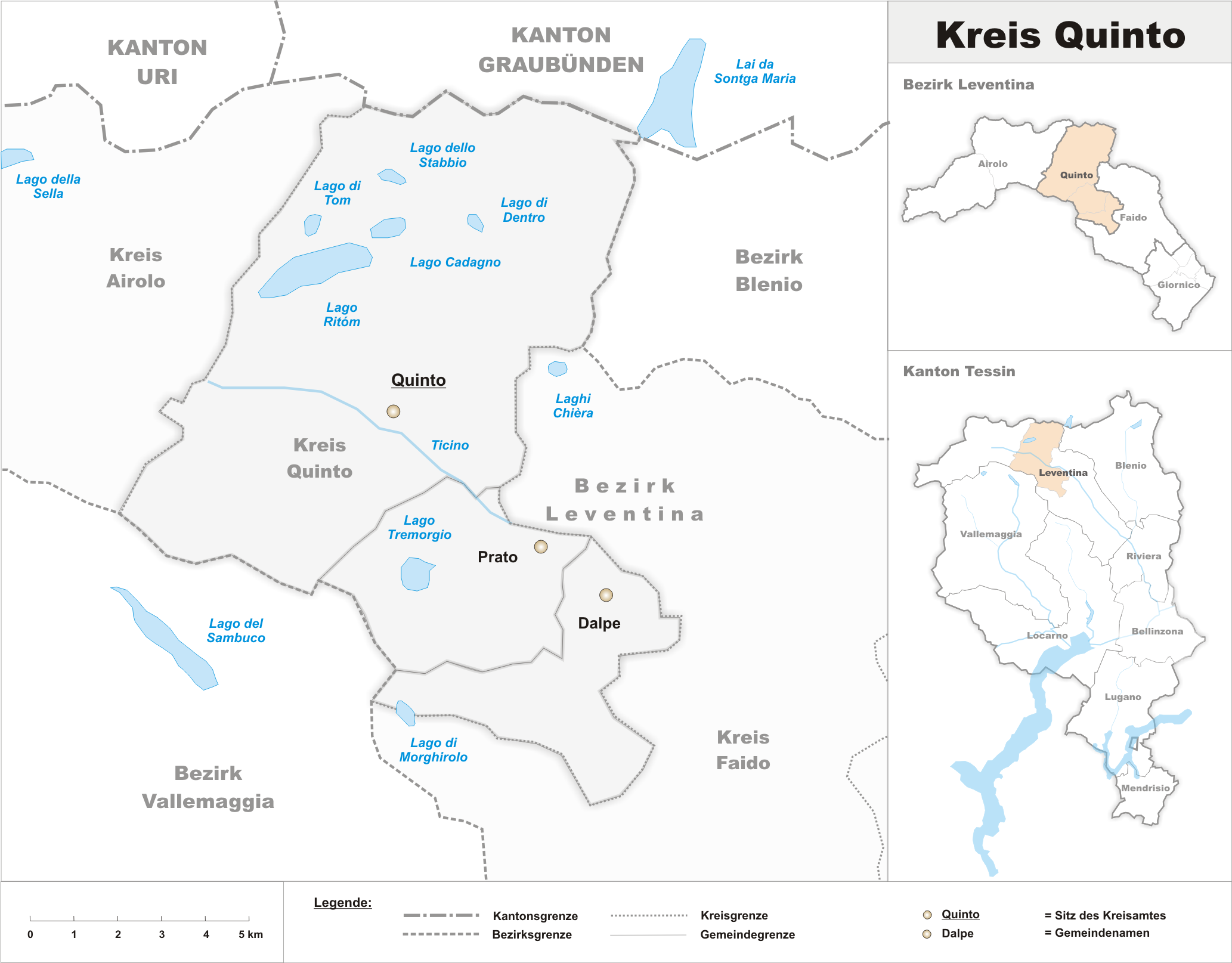 Municipalities in the circle of Quinto